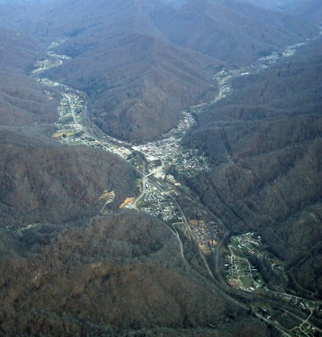 Taken from a small plane this is a view of Evarts, Kentucky from approximately the South Southwest.